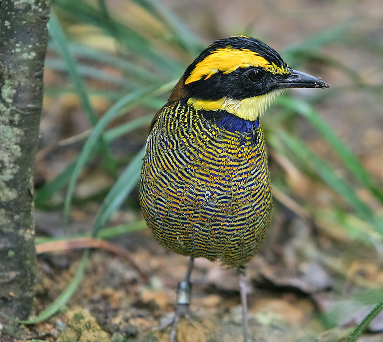 Pitta guajana - Banded Pitta, male